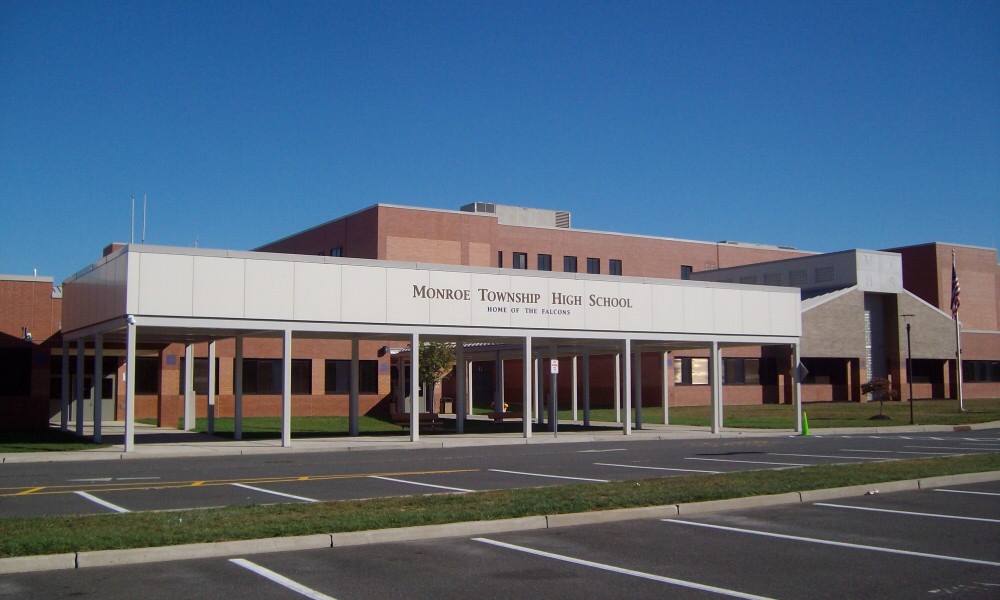 The front of MTHS